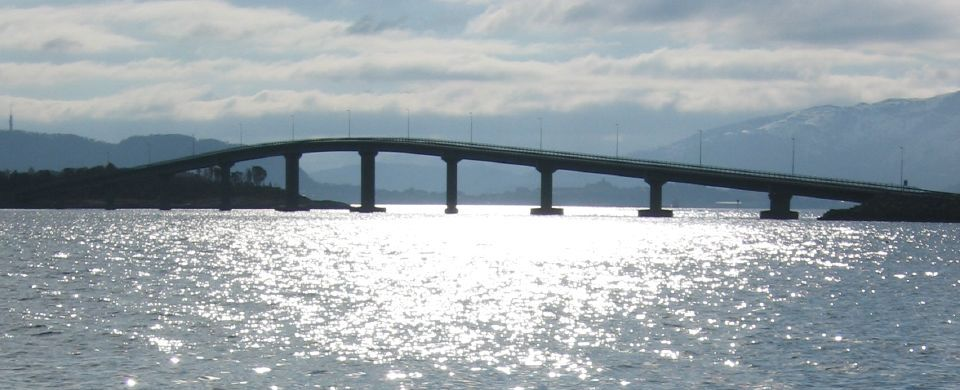 Bridge to Giske Island in Møre og Romsdal. Vertically cropped version of Image:Giske bridge.jpg